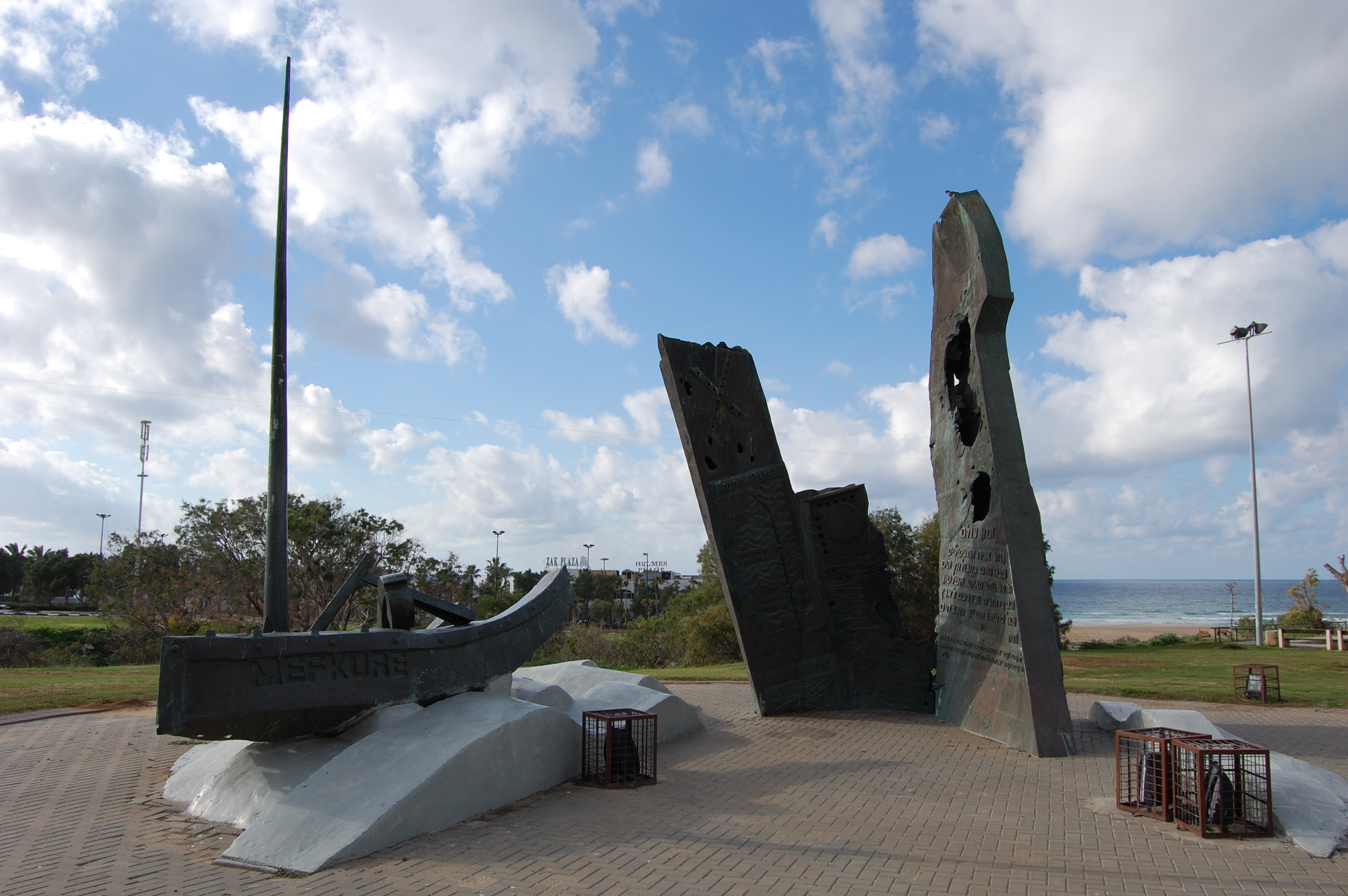 Ashdod, Geography of Israel